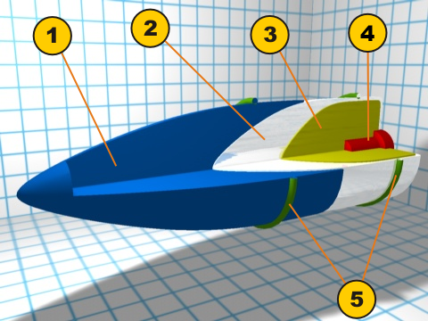 Shell (APCBC) - Armor Piercing Capped with Ballistic Cap Light weight Ballistic Cap Steel alloy piercing shell Desensitised bursting charge (TNT, Trinitrophenol, RDX...) Fuze (set with delay to explode inside the target) Bourrelet (front) and driving band (rear)